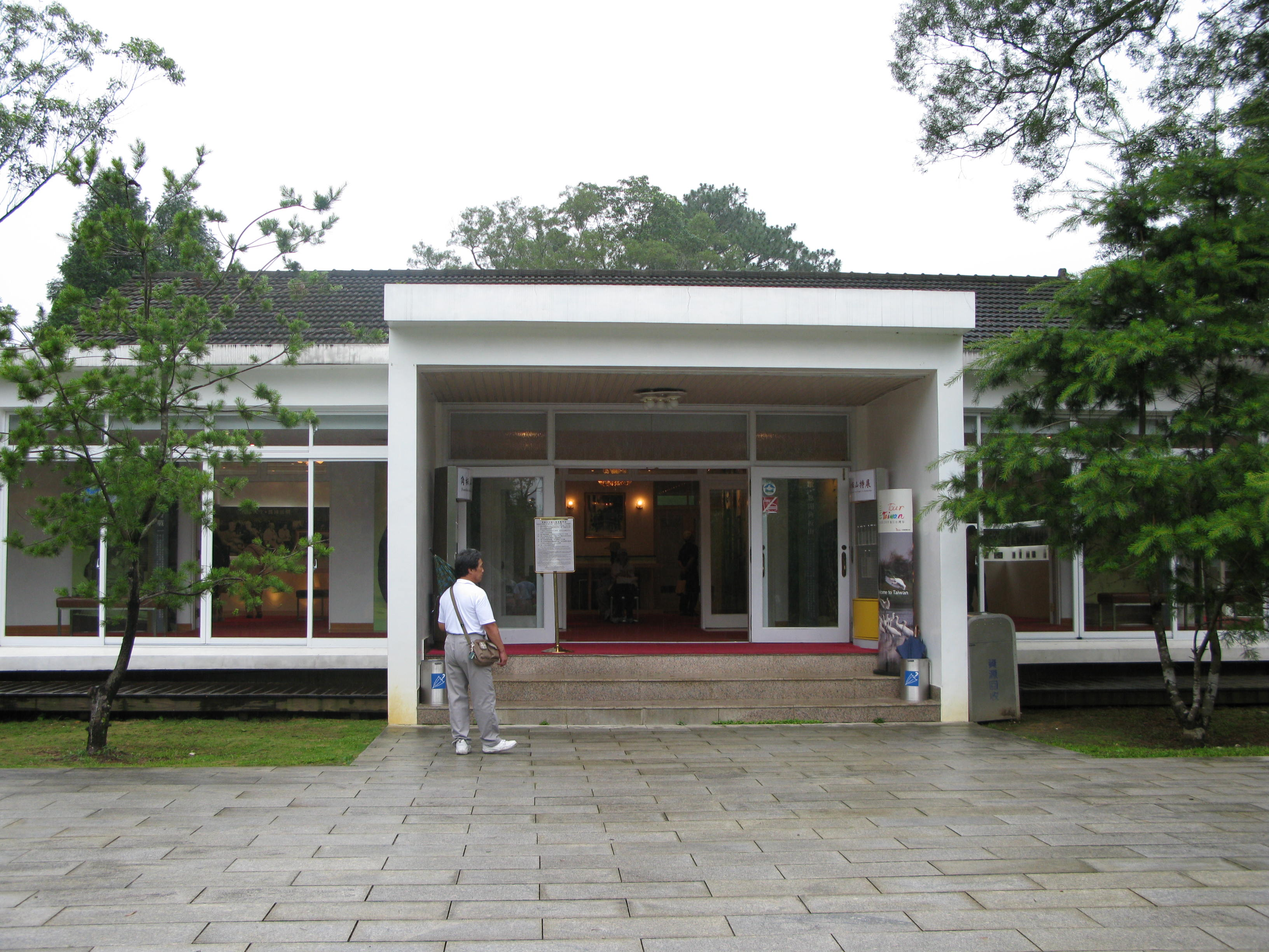 Jiaobanshan Resort, TAIWAN.